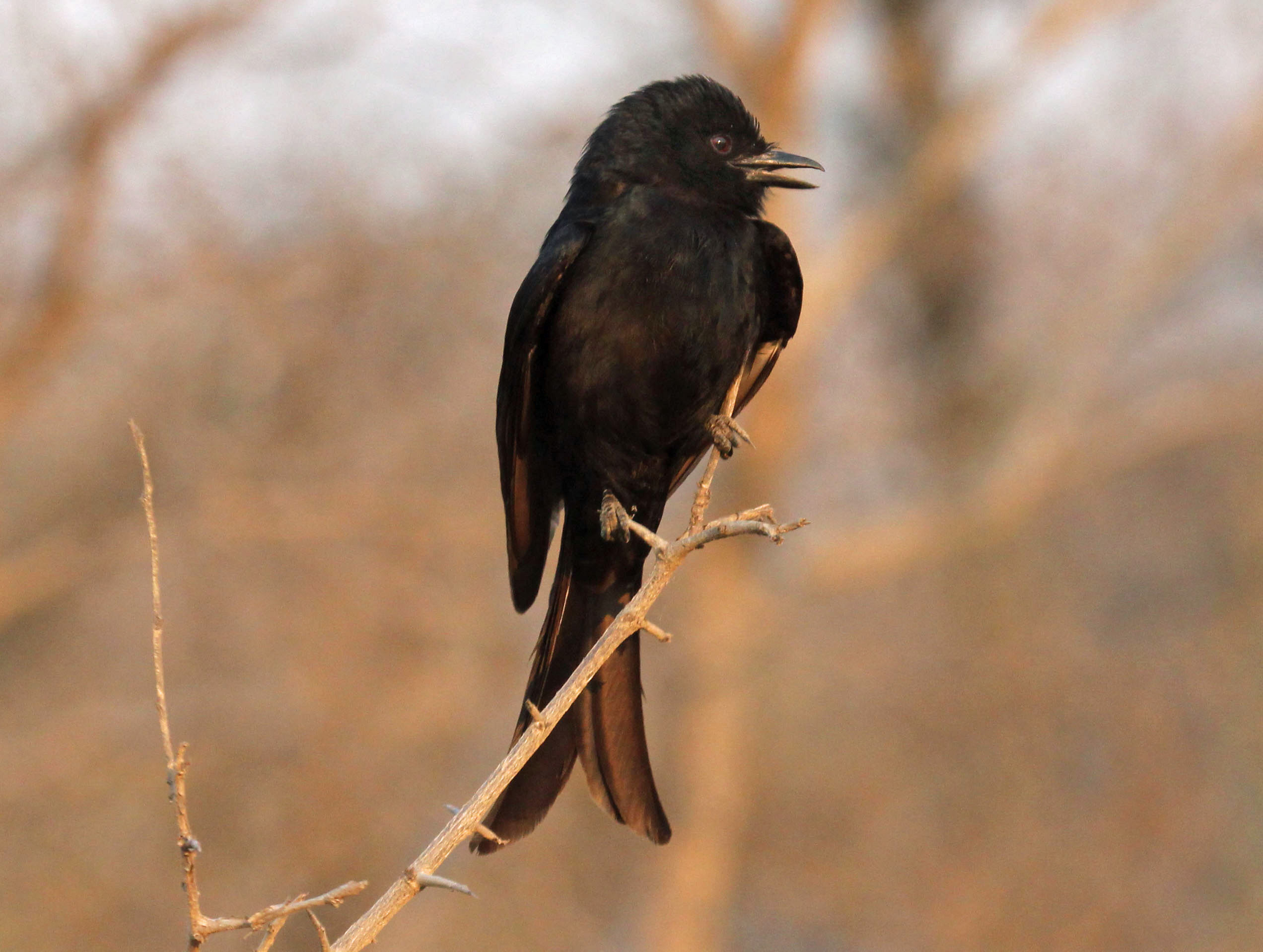 Fork-tailed Drongo (Dicrurus adsimilis) at Kruger National Park, South Africa